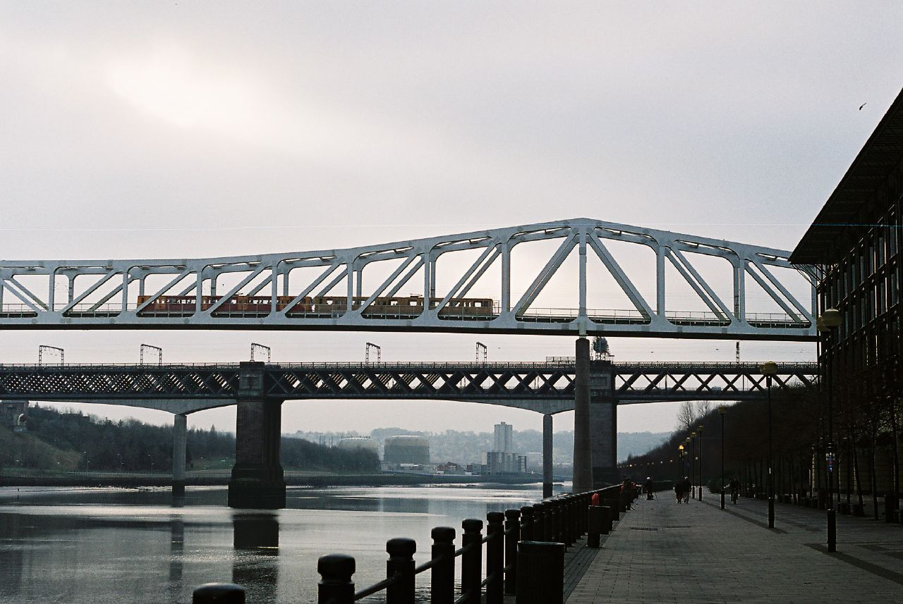 I was standing hoping the Metro would go past and lo it did